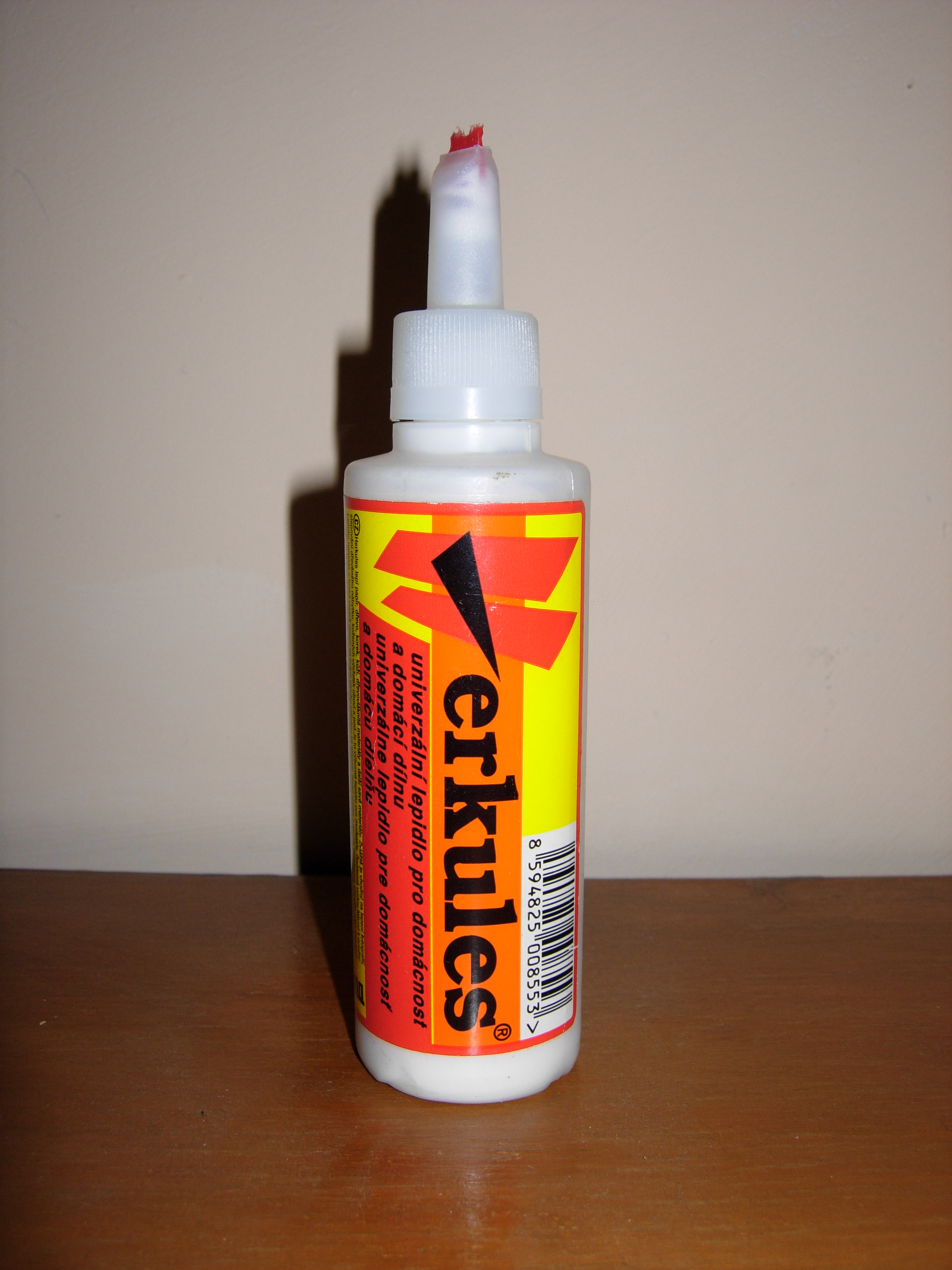 Herkules glue manufactured by Druchema.